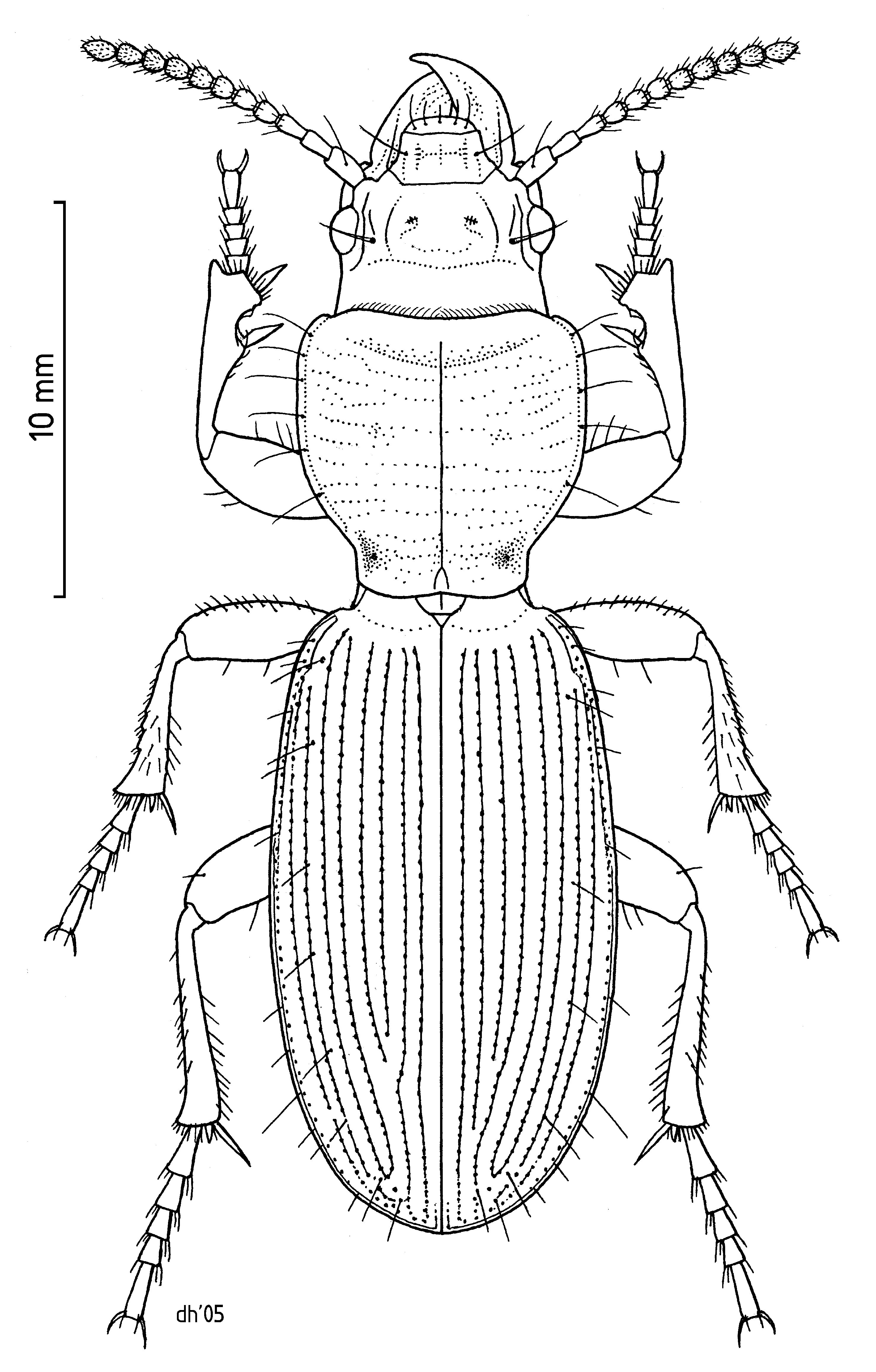 (Coleoptera: Carabidae) Mecodema illustrated by Des Helmore.